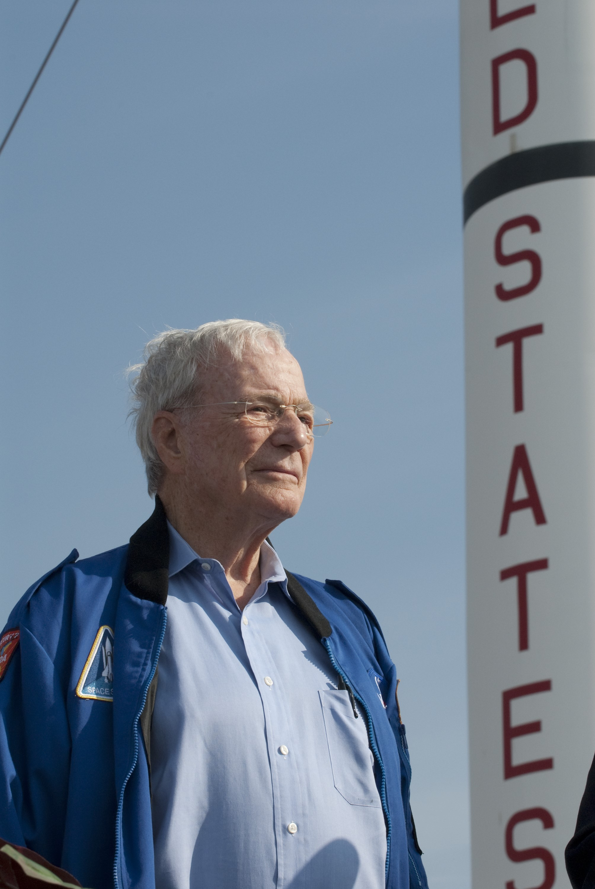 CAPE CANAVERAL, Fla. -- Mercury astronaut Scott Carpenter participates in a celebration at Complex 5/6 on Cape Canaveral Air Force Station in Florida. The celebration was held at the launch site of the first U.S. manned spaceflight May 5, 1961, to mark the 50th anniversary of the flight. Fifty years ago, astronaut Alan Shepard lifted off inside the Mercury capsule, "Freedom 7," atop an 82-foot-tall Mercury-Redstone rocket at 9:34 a.m. EST, sending him on a remarkably successful, 15-minute suborbital flight. The event was attended by more than 200 workers from the original Mercury program and included a re-creation of Shepard's flight and recovery, as well as a tribute to his contributions as a moonwalker on the Apollo 14 lunar mission. For more information, visit Photo credit: NASA/Kim Shiflett